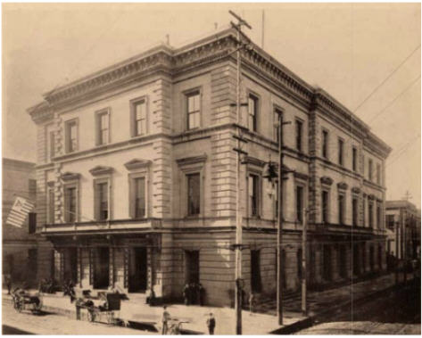 U.S. Custom House and Post Office in Mobile in 1894. Completed in 1856 and razed in 1963.